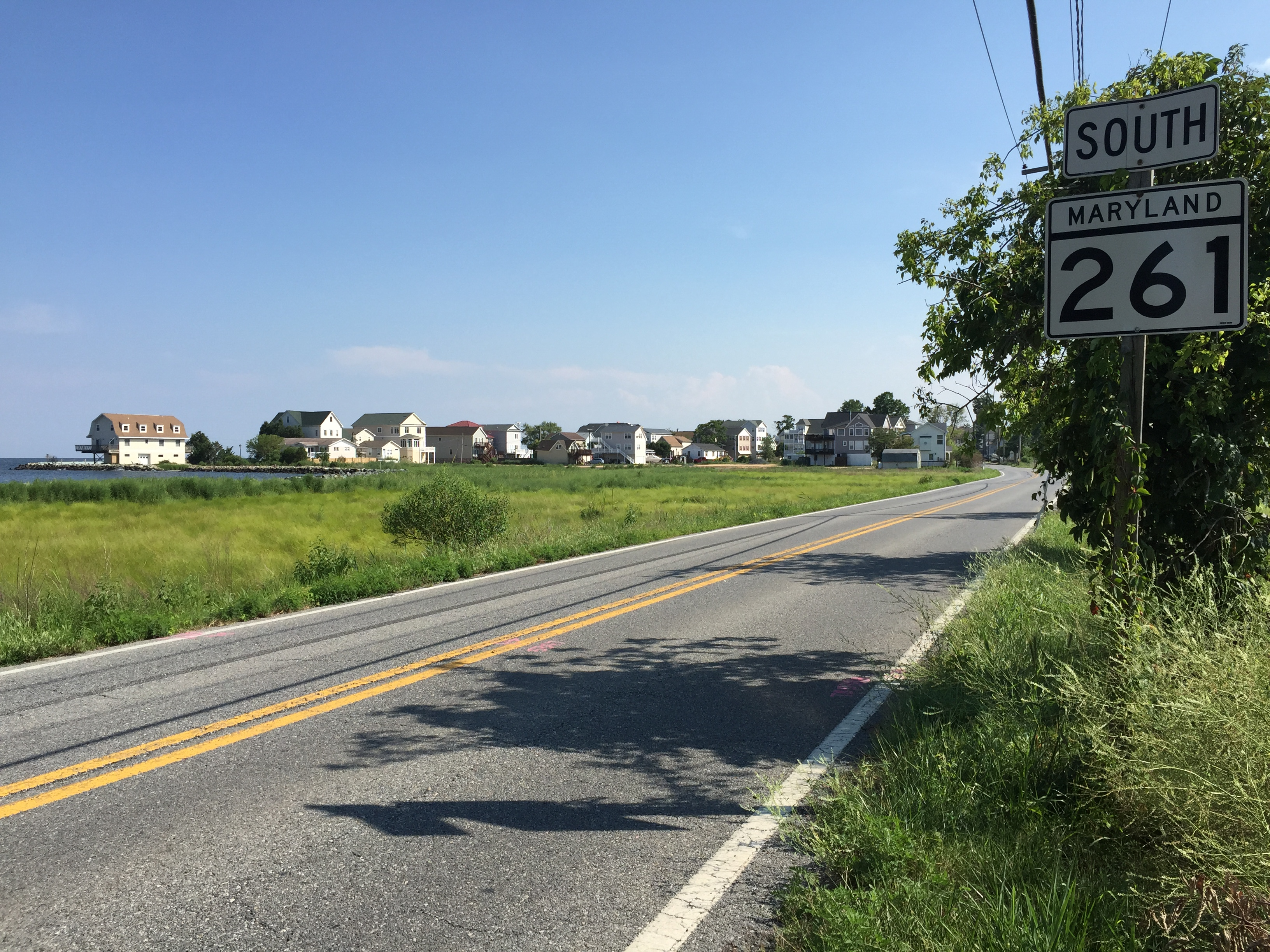 View south along Maryland State Route 261 (Bay Avenue) north of Ninth Street in North Beach, Calvert County, Maryland